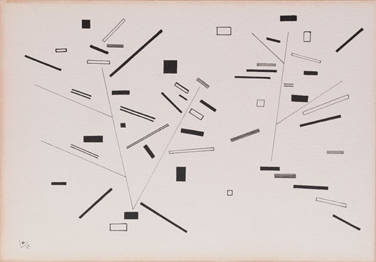 Untitled by Wassily Kandinsky, pen and ink on paper, 10 x 14.5 in., Mills College Art Museum